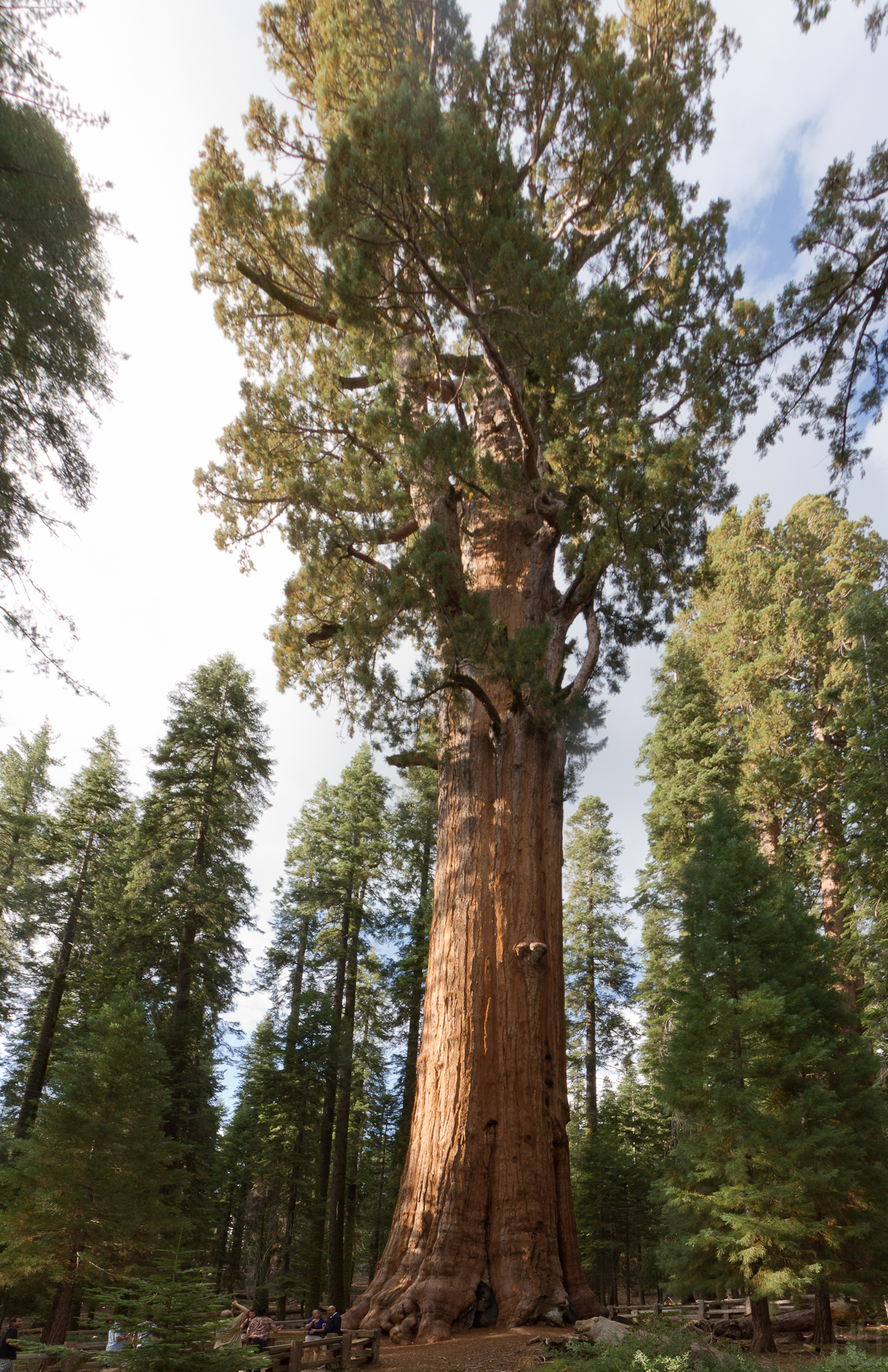 By volume, it is the largest known living single stem tree on Earth.